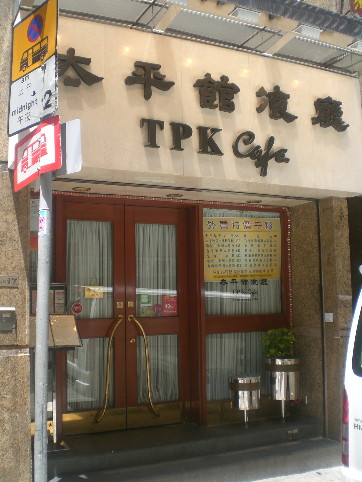 中環 太平館餐廳